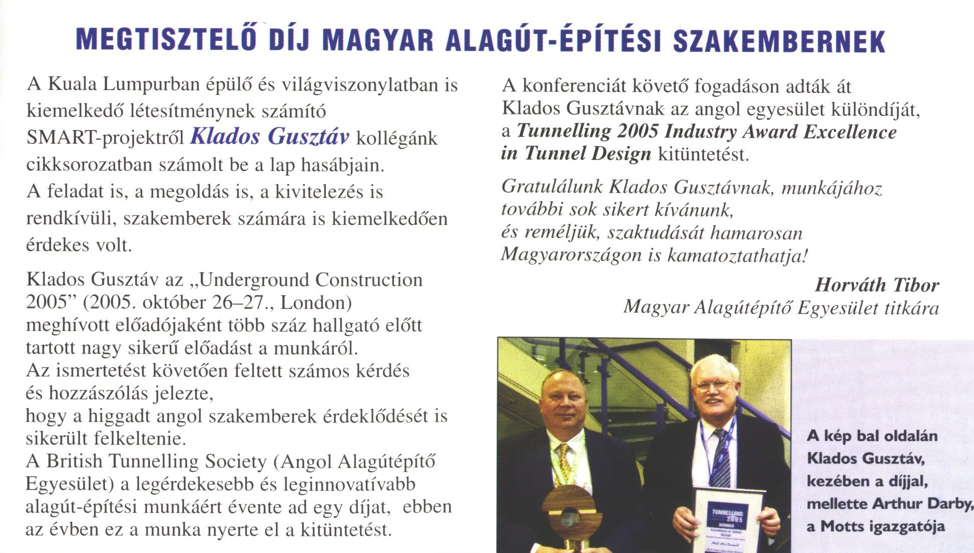 Tunnelling 2005 Industry Award Excellence in Tunnel Design (left Gustav Klados, right Arthur Darby). British Tunnelling Society